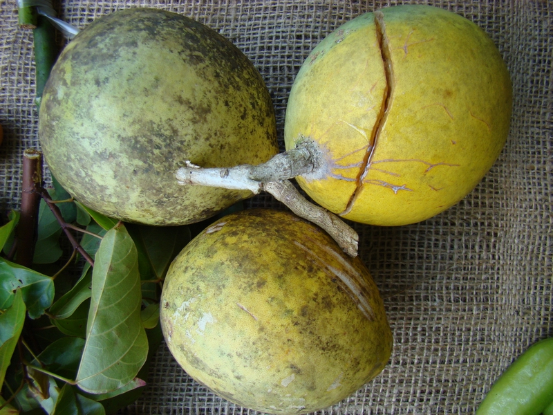 Display of 3 ripe and semi-ripe Bael (Aegle marmelos / Rutaceae) fruits during the Redland Summer Fruit Festival held in the Fruit And Spice Park, Homestead, Florida.